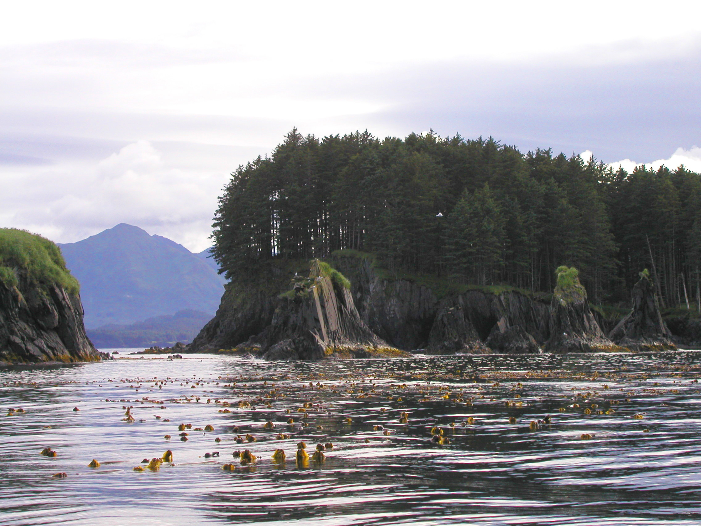 Icon Bay; Nereocystis luetkeana kelp floats apparent on surface, and Picea sitchensis forest on island. Alaska, Spruce Island, Icon Bay.